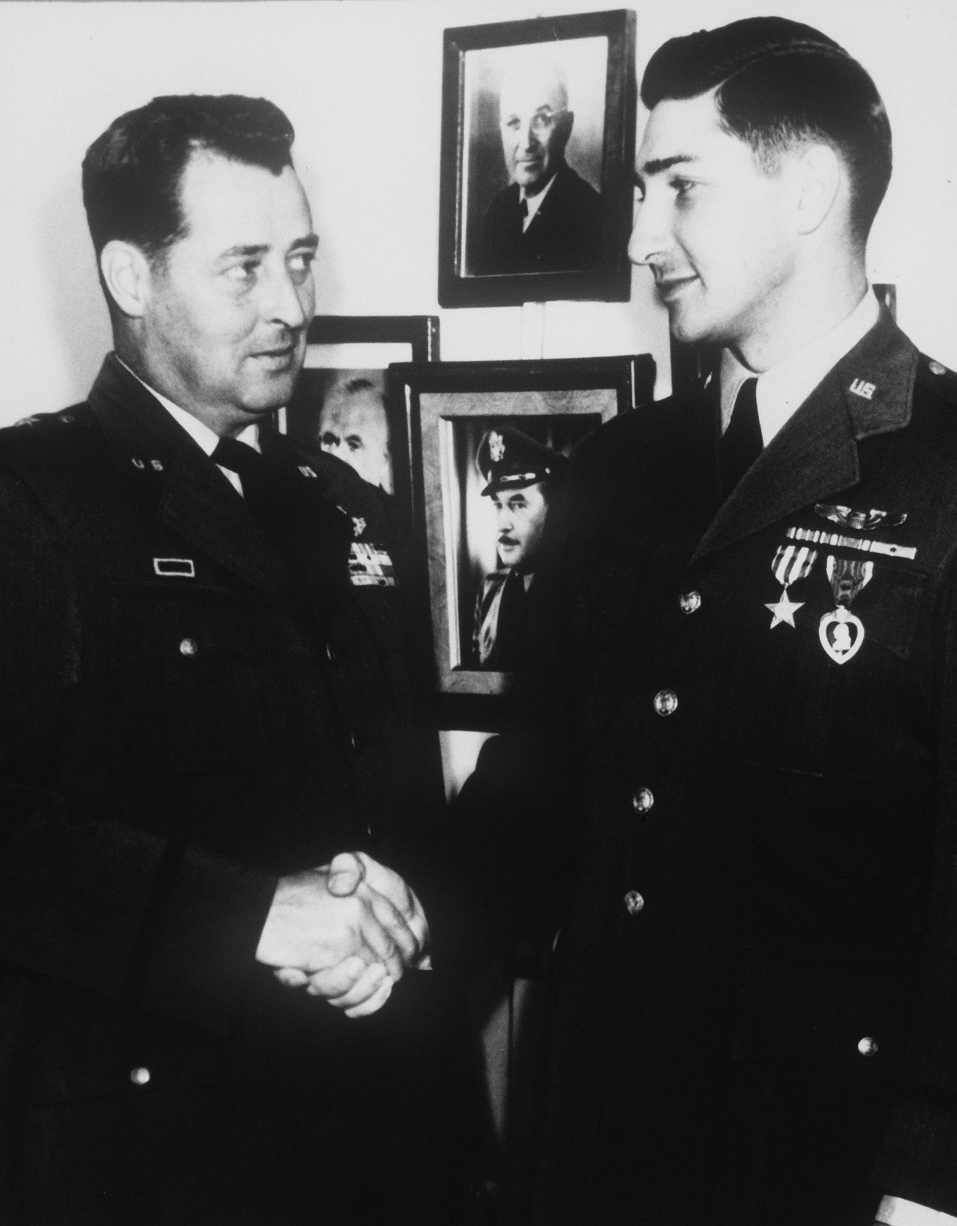 A USAF Hospital in Japan--Capt Lyle B. Bordeaux (right), Bowling Green, OH, USAF B-29 pilot, receives the Silver Star, and the Purple Heart, from Brig Gen Joe W. Kelly, FEAF Bomber Command Chief, plus congratulations for a job well done. He was cited for gallantry in action during a "Superfort" attack on a Communist airfield in North Korea, when his bomber was crippled by enemy flak and then attacked by MiG-15s. His skillful airmanship resulted in the rescue of all 12 crewmen. AIR AND SPACE MUSEUM#: 122492 AC